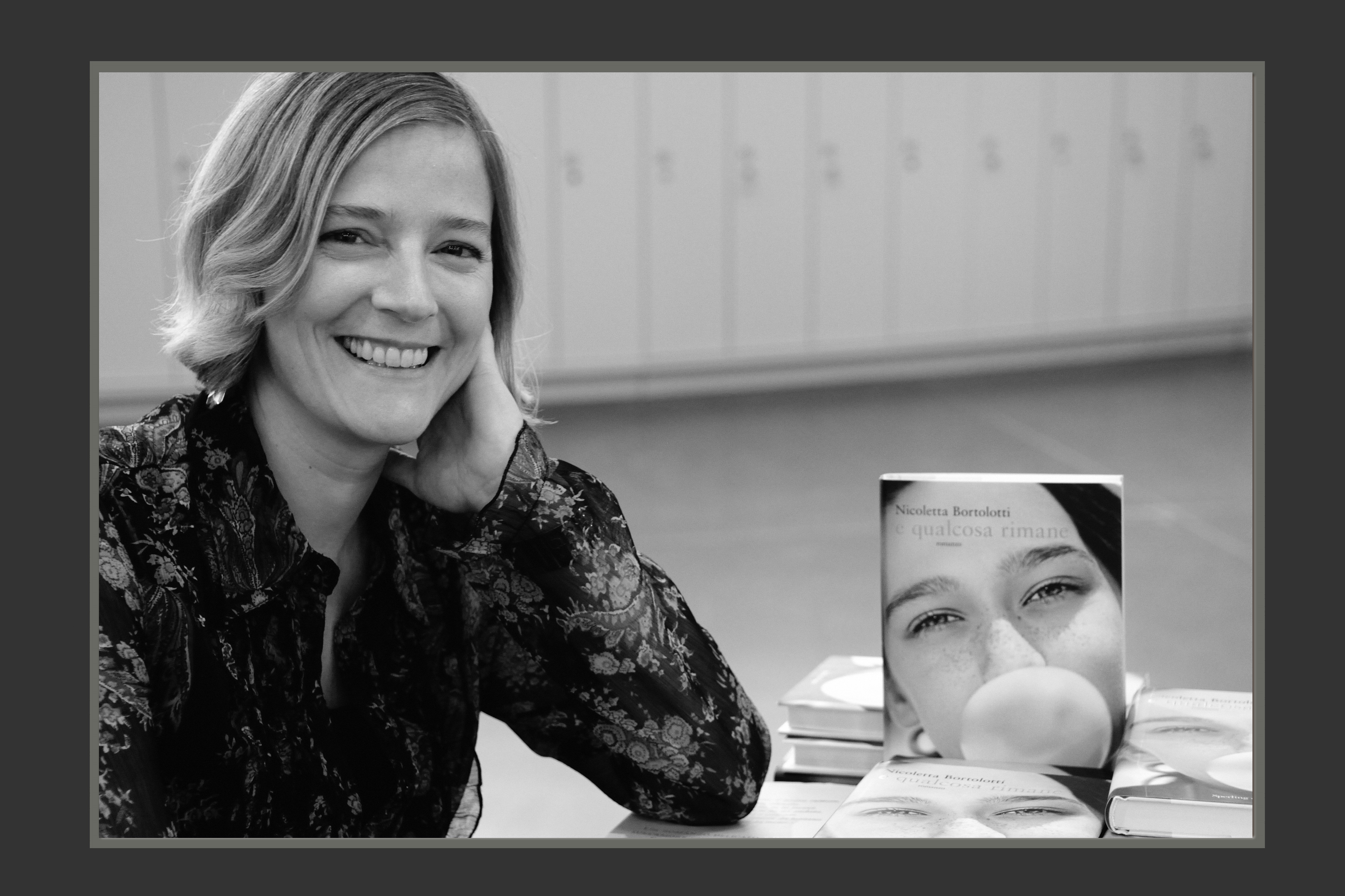 Nicoletta Bortolotti